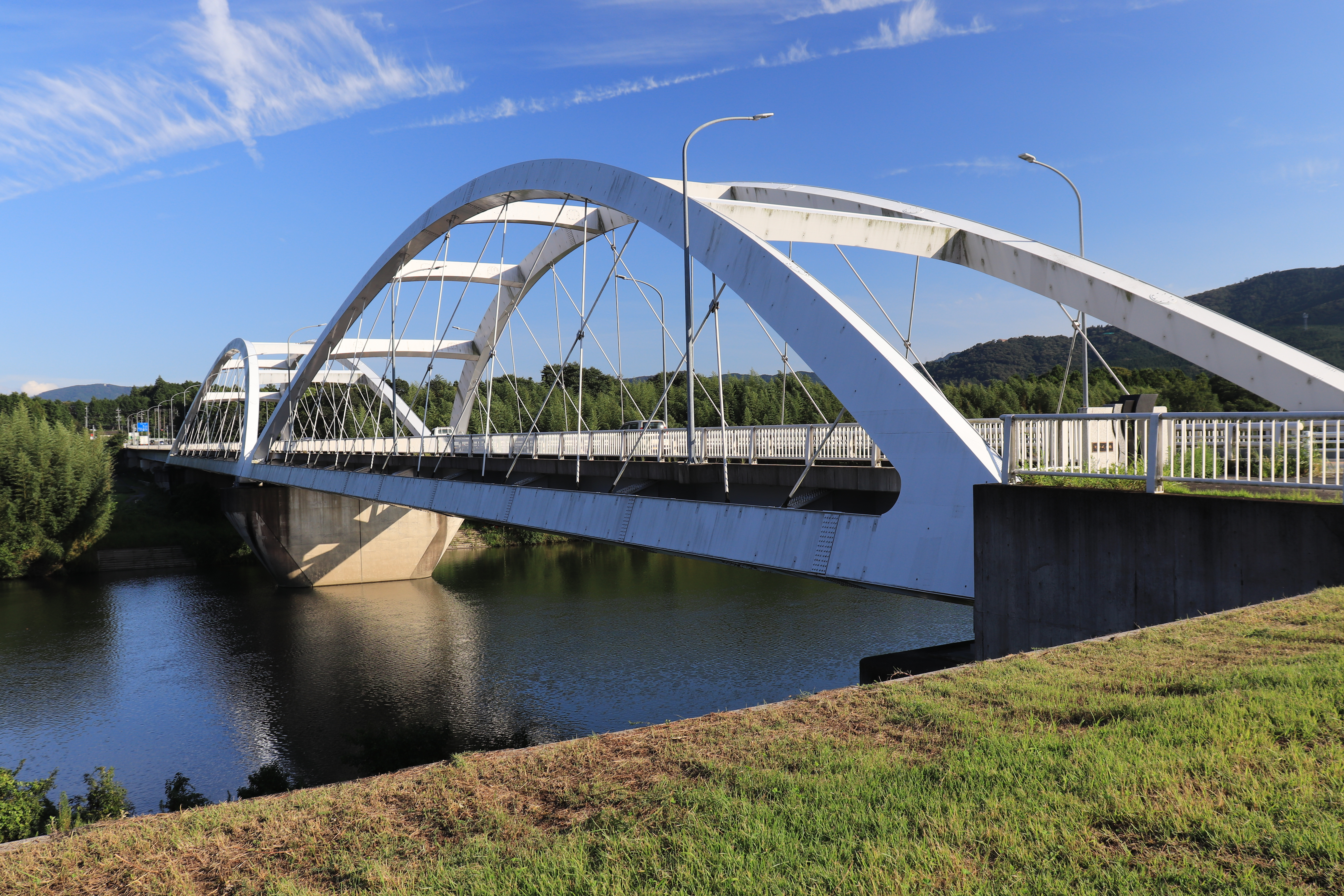 Nodajo Bridge of Aichi Prefectural Road Route 392 (Shinshiro-Inasa Line) over Toyo River in Shinshiro, Aichi Prefecture, Japan.